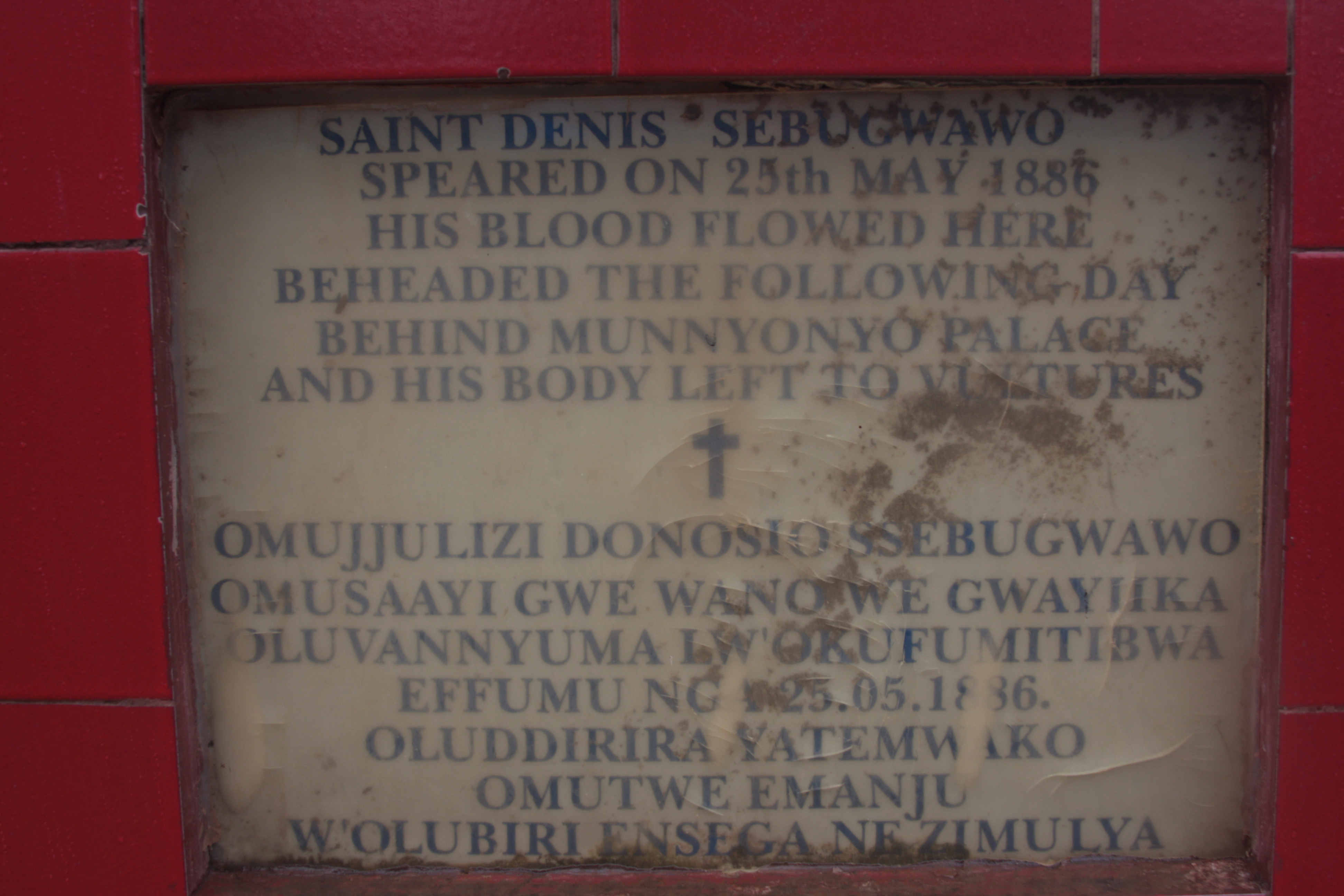 Munyonyo (Kampala-Uganda) place of martydom of St. Denis Sebugwawo